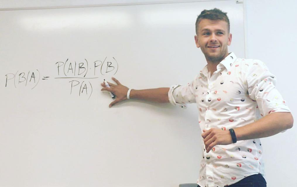 A lecture of Bayesian Statistics